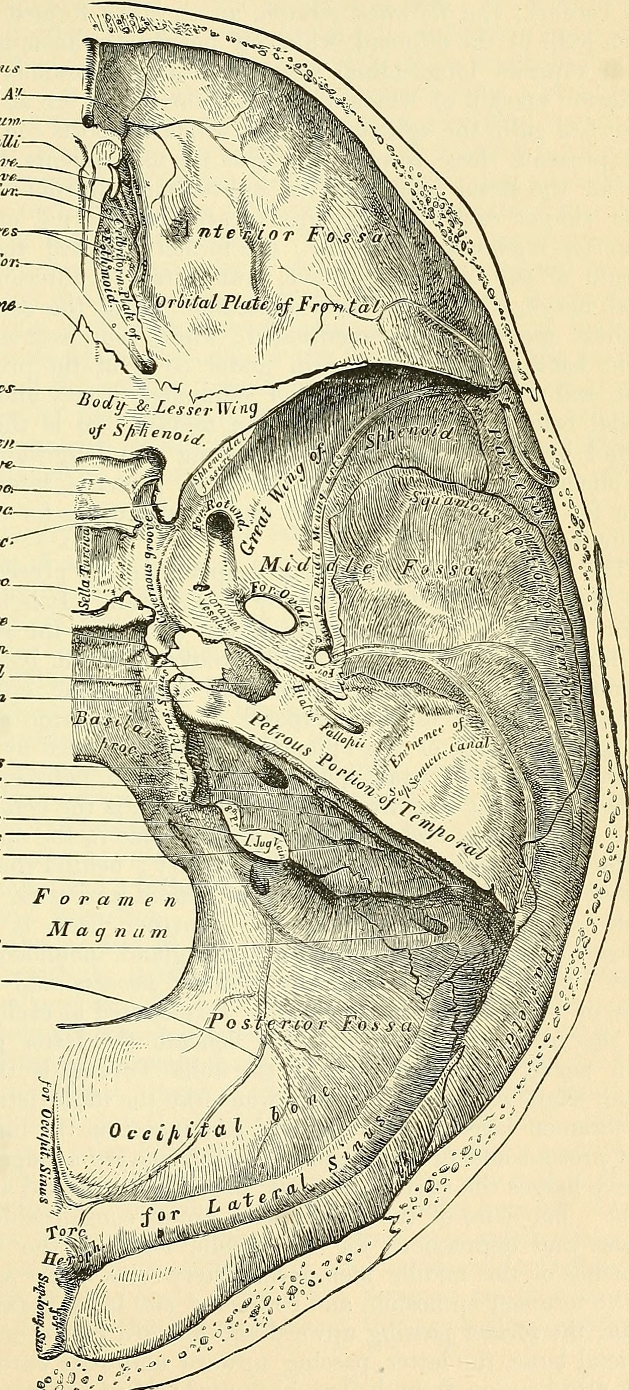 Title: Anatomy, descriptive and surgical Year: 1887 (1880s) Authors: Gray, Henry, 1825-1861 Pick, T. Pickering (Thomas Pickering), 1841-1919, ed Keen, William W. (William Williams), b. 1837 Subjects: Human anatomy Anatomy Publisher: Philadelphia : Lea brothers & co. Text Appearing Before Image: . Petrosal groove for. lacerum pasttrius Anterior Condyloid For. Aqueduett. Vestibuli Posterior Condyloid For. Mastoid Fai.Jbst. MenLnqeal Grooves. Text Appearing After Image: Base of the Skull, inner or cerebral surface. 206 THE SKELETON. The Anterior Fossa is formed by the orbital plate of the frontal, the cribriformplate of the ethmoid, the ethmoidal spine, and the lesser wing of the sphenoid. Itis the most elevated of the three fossae, convex externally where it corresponds tothe roof of the orbit, concave in the median line in the situation of the cribriformplate of the ethmoid. It is traversed by three sutures—the ethmo-frontal, ethmo-sphenoidal, and fronto-sphenoidal—and lodges the anterior lobe of the cerebrum.It presents, in the median line, from before backward, the commencement of thegroove for the superior longitudinal sinus and the crest for the attachment of thefalx cerebri; the foramen ccecum, an aperture formed by the frontal bone and thecrista galli of the ethmoid, which, if pervious, transmits a small vein from the noseto the superior longitudinal sinus; behind the foramen caecum, the crista galli, theposterior margin of which affords